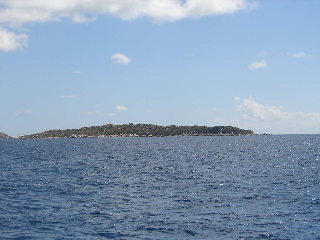 Photo of Fallen Jerusalem Island in the British Virgin Islands